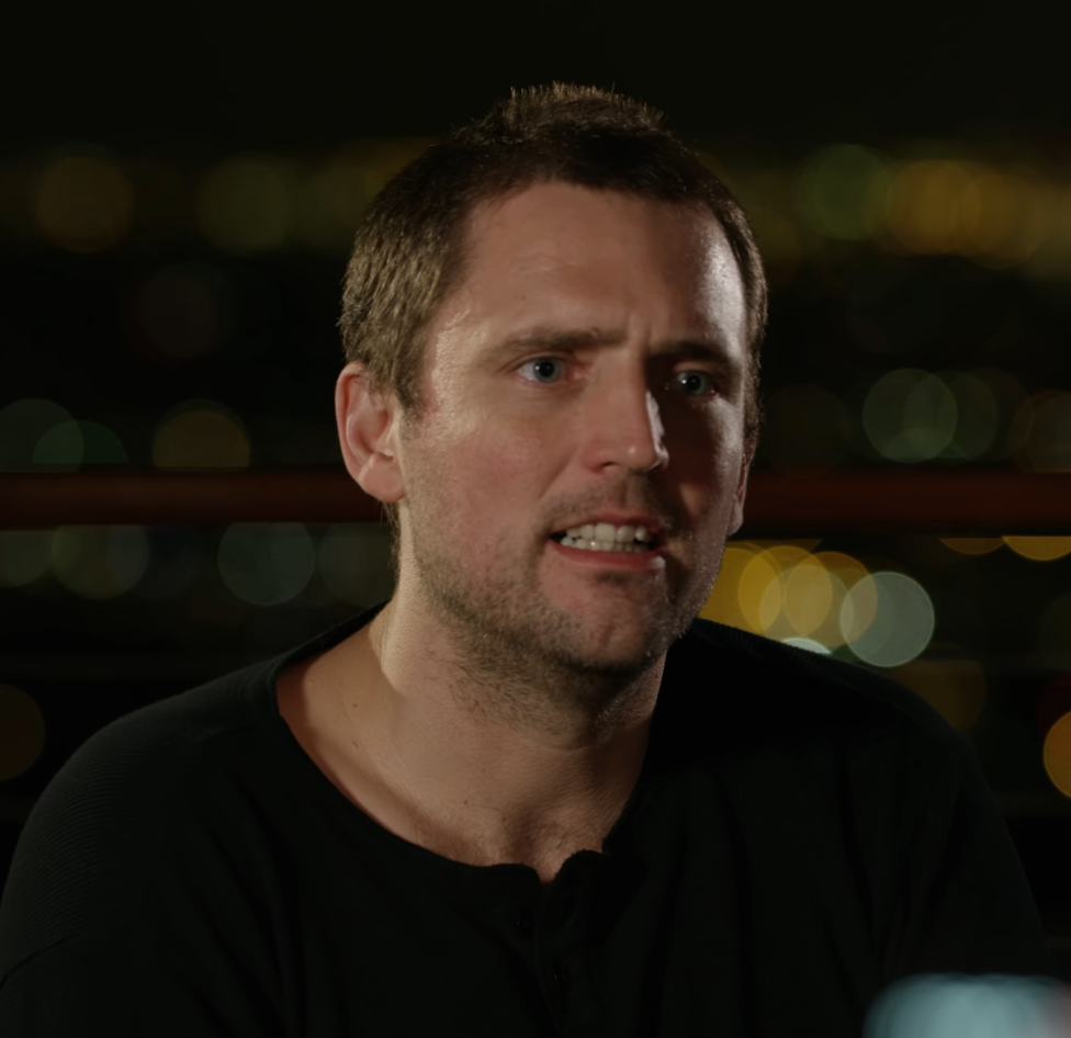 Owen Benjamin being interviewed in November 2017.